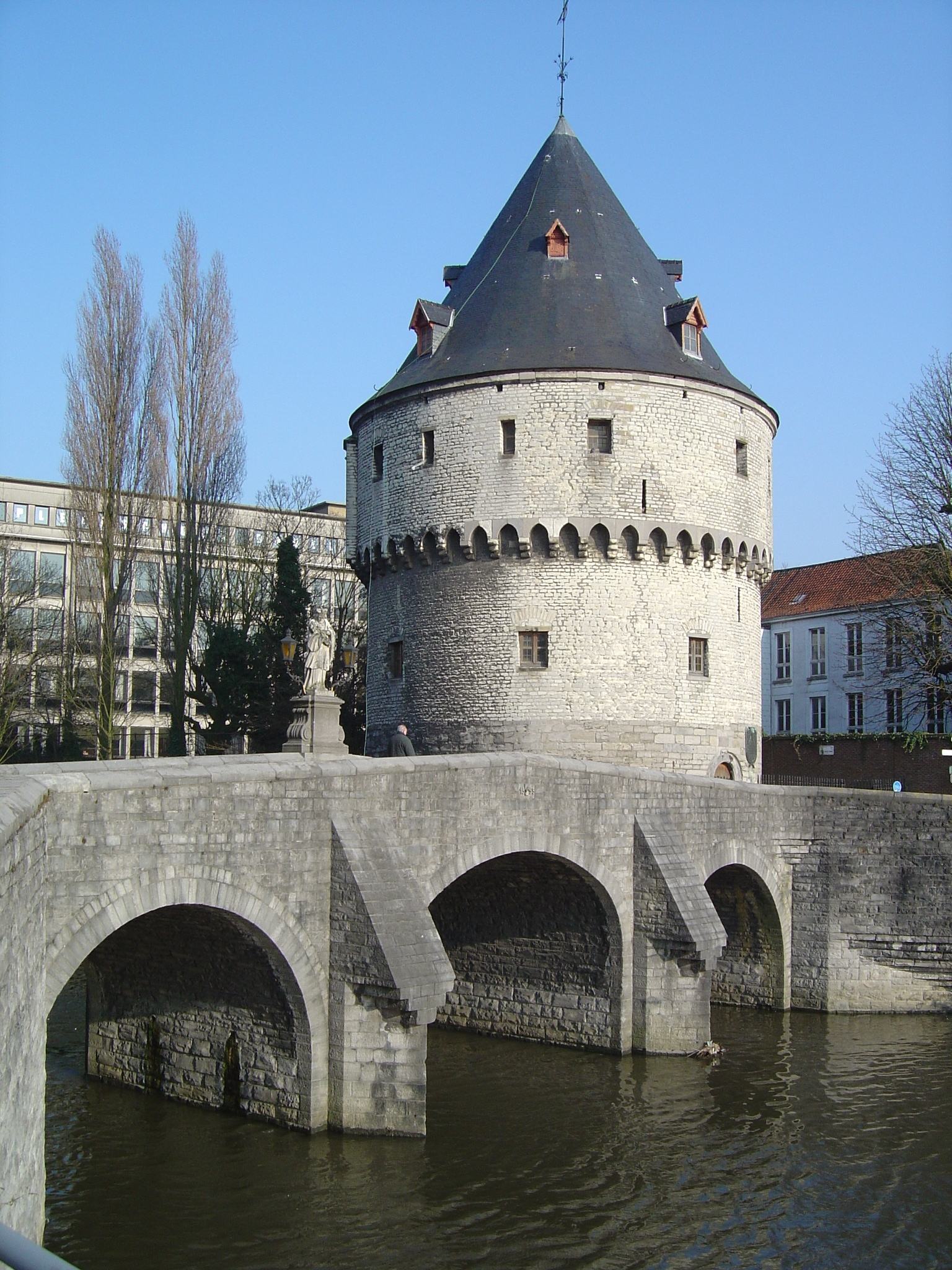 On of the Broel towers in Kortrijk (Belgium) I took this picture in march 2006